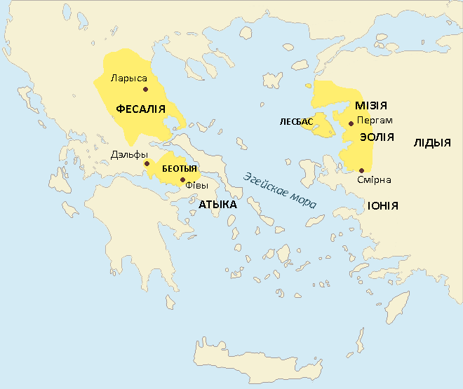 Aeolic Greek Map (in Belarusian)